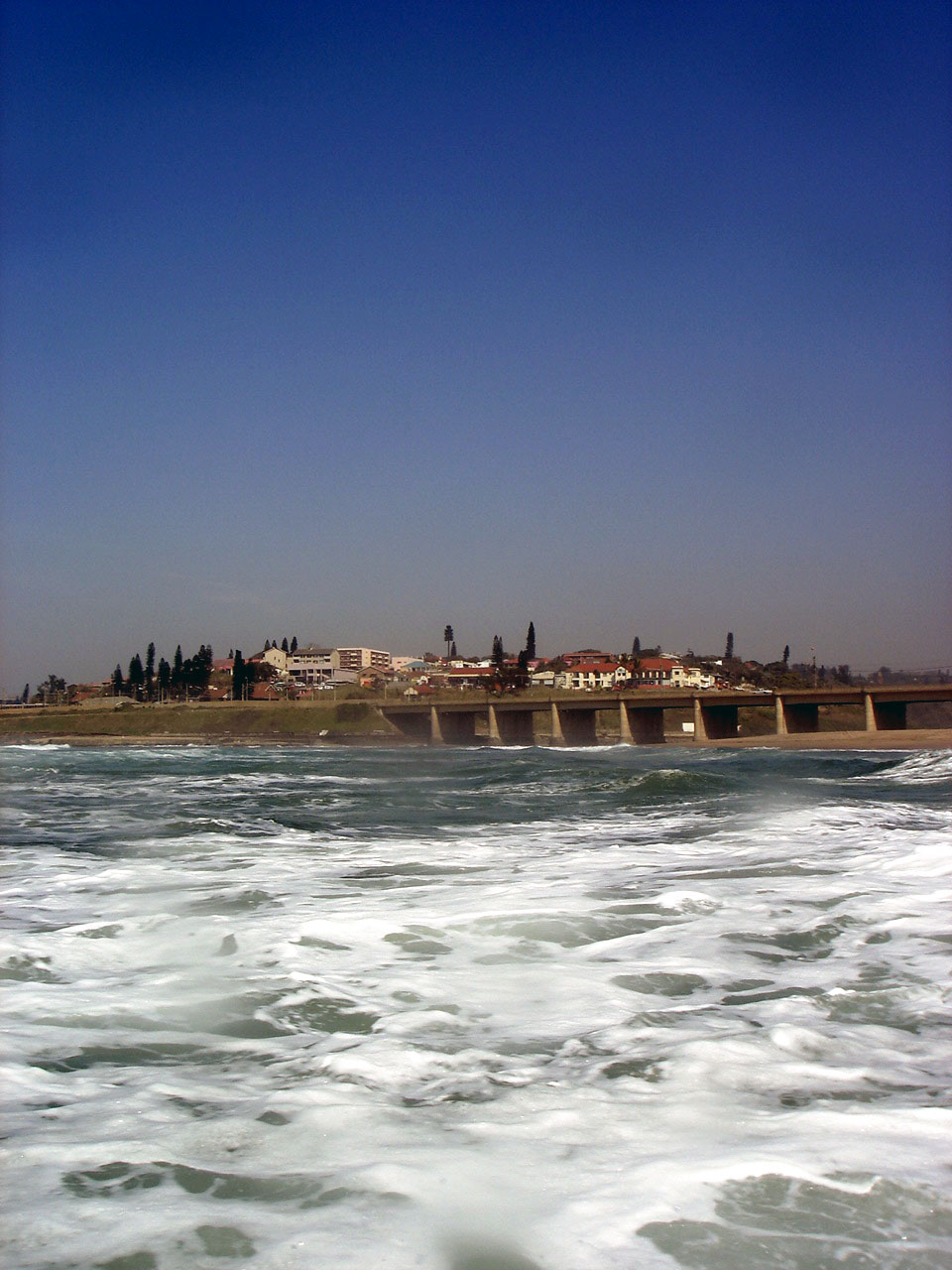 Umokmaas—Surf near Mkomazi River mouth